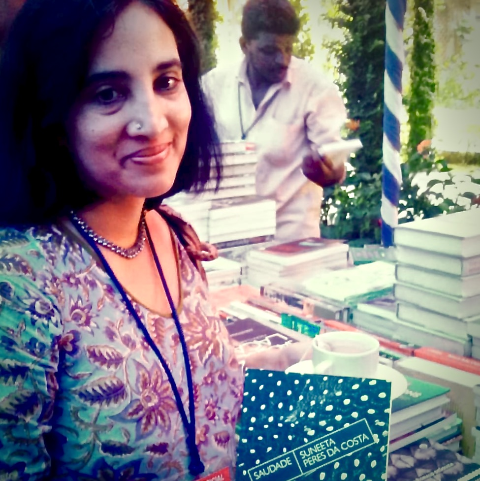 Suneeta Peres da Costa at Goa Arts & Literary Festival December 6-8, 2018